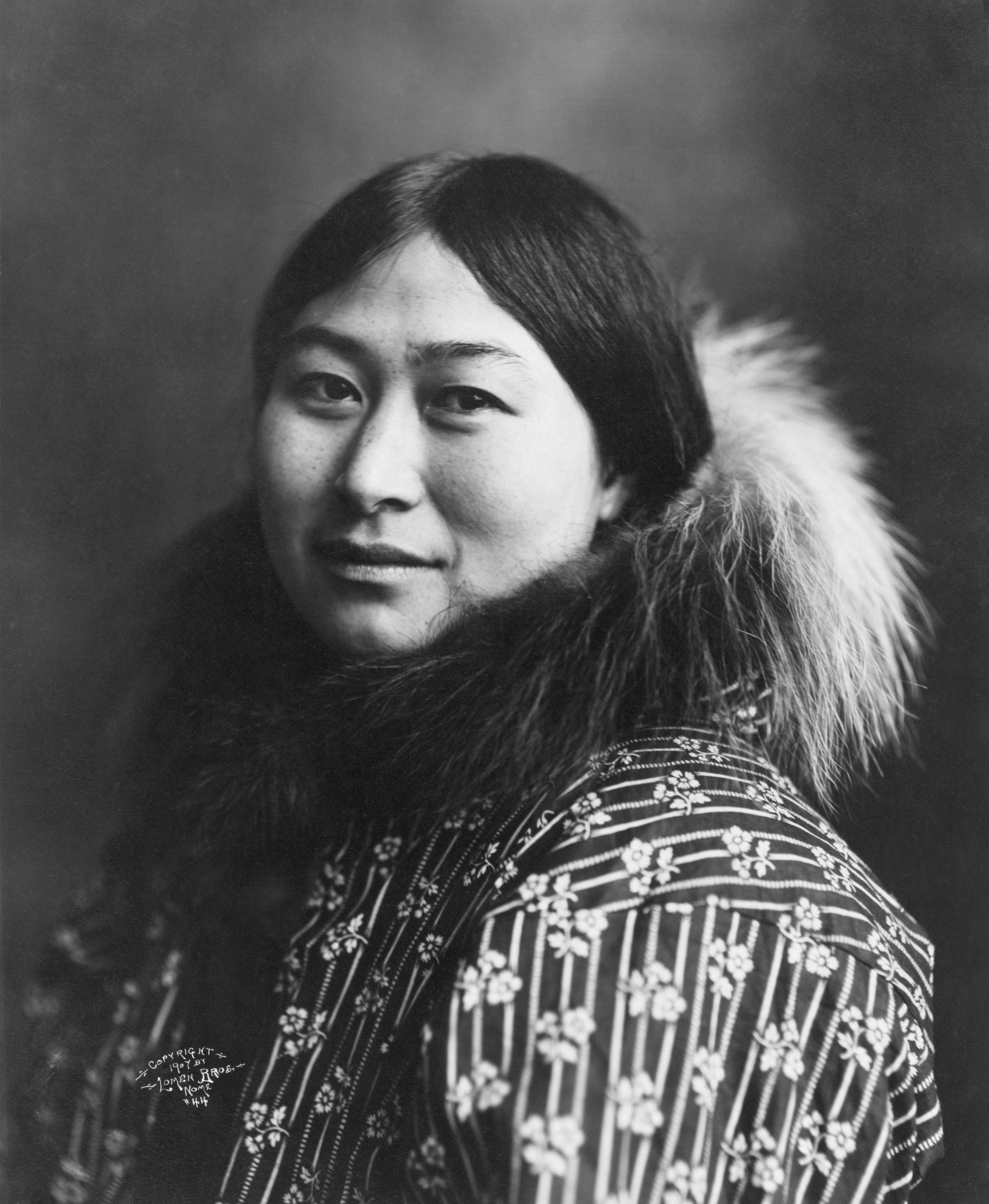 Photograph of Nowadluk/Nowadlook (Nora) Ootenna wearing a coat with a fur collar. Ootenna was an Inupiat woman who was a popular subject for Alaskan photographers around the time - [1] [2] [3] [4] [5] [6] [7]. She was has been mentioned as the daughter of James Keok[8] (.doc) (though their recorded birth dates makes this unlikely [9]) and she was married to George Ootenna[10] who were natives of Cape Prince of Wales[11] and worked as reindeer herders[12] (a business in which Lomen Bros was the main investor in Alaska)[13]. The Glenbow archive places most of the photos of her there.[14] Nora was born in 1885 and as of the 1910 Census she lived in Port Clarence (essentially Cape Prince of Wales).[15]